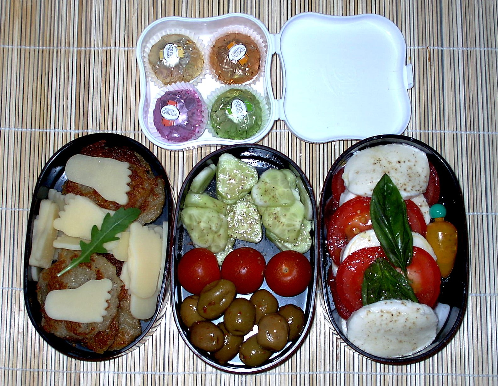 Portable three tier bento box with european filling, Photographer (and Cook): Mela Eckenfels, Source URL